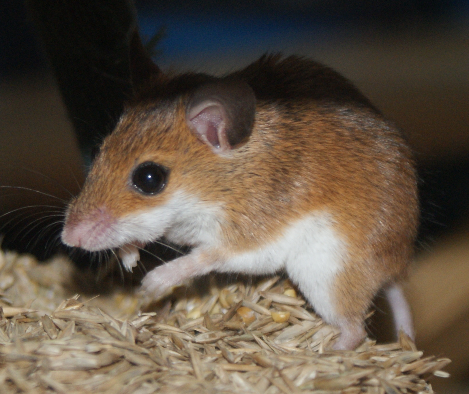 African Pygmy Mouse (Mus musculoides) eating millet and grass seed